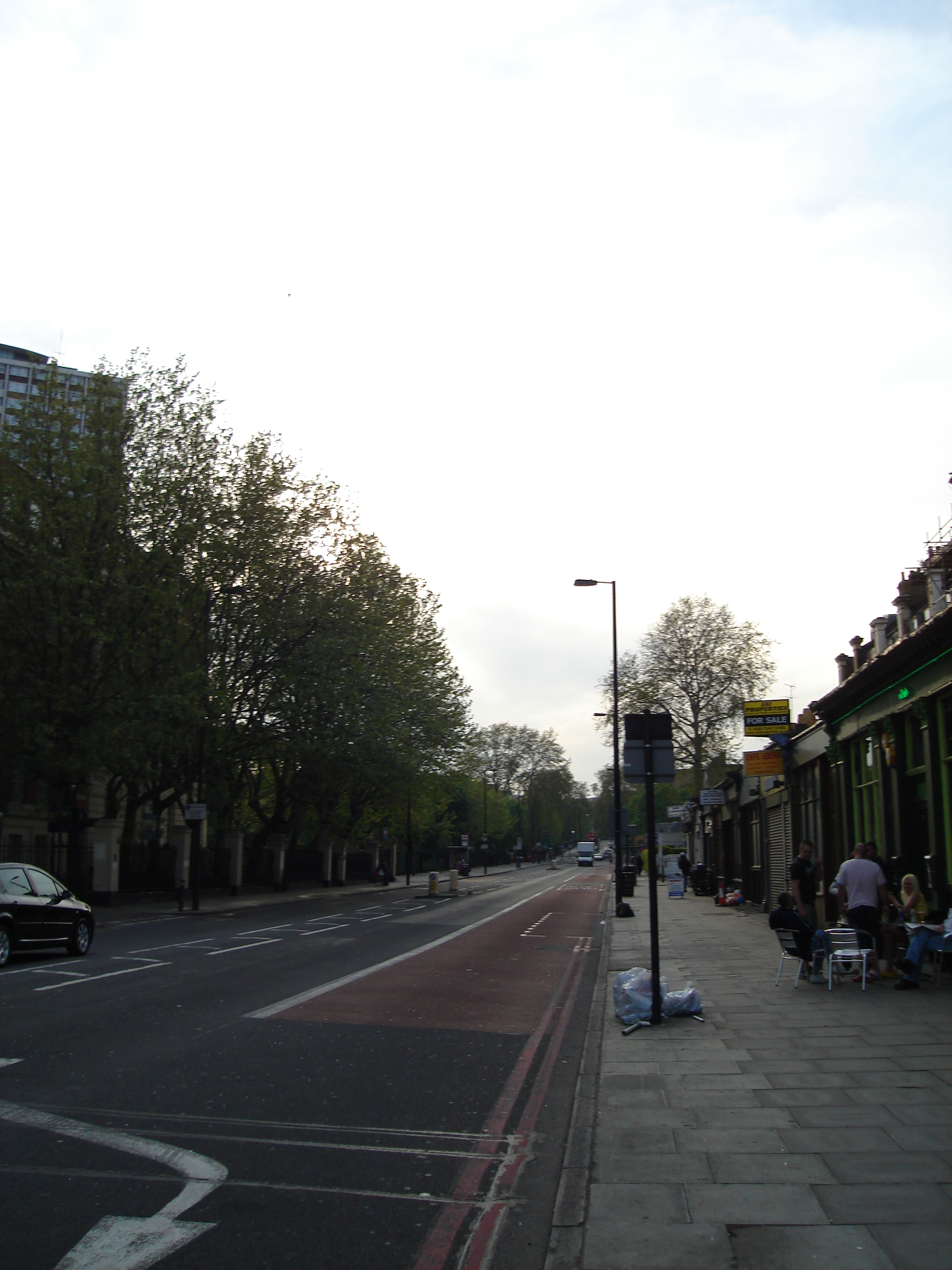 Taken from corner of City Road and City Garden Row, London, UK looking northwest towards Upper Street.